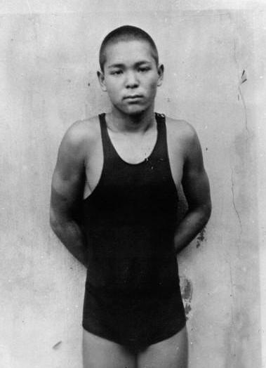 The young Japanese swimmer Kusuo Kitamura in 1932